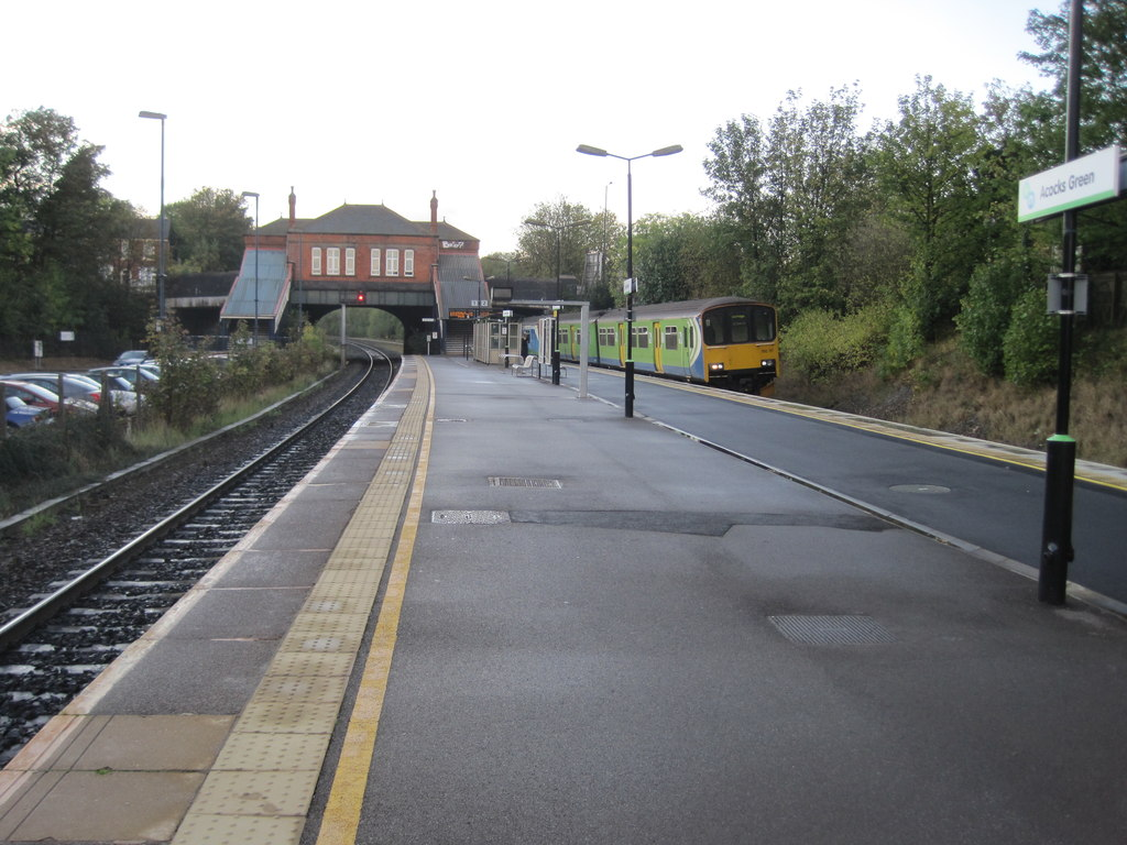 Acocks Green railway station Opened in 1852 by the Great Western Railway on its line from Oxford to Birmingham Snow Hill. View north west towards Tyseley and Birmingham. The car park to the left is the site of a second island platform - this used to be a four platform station.